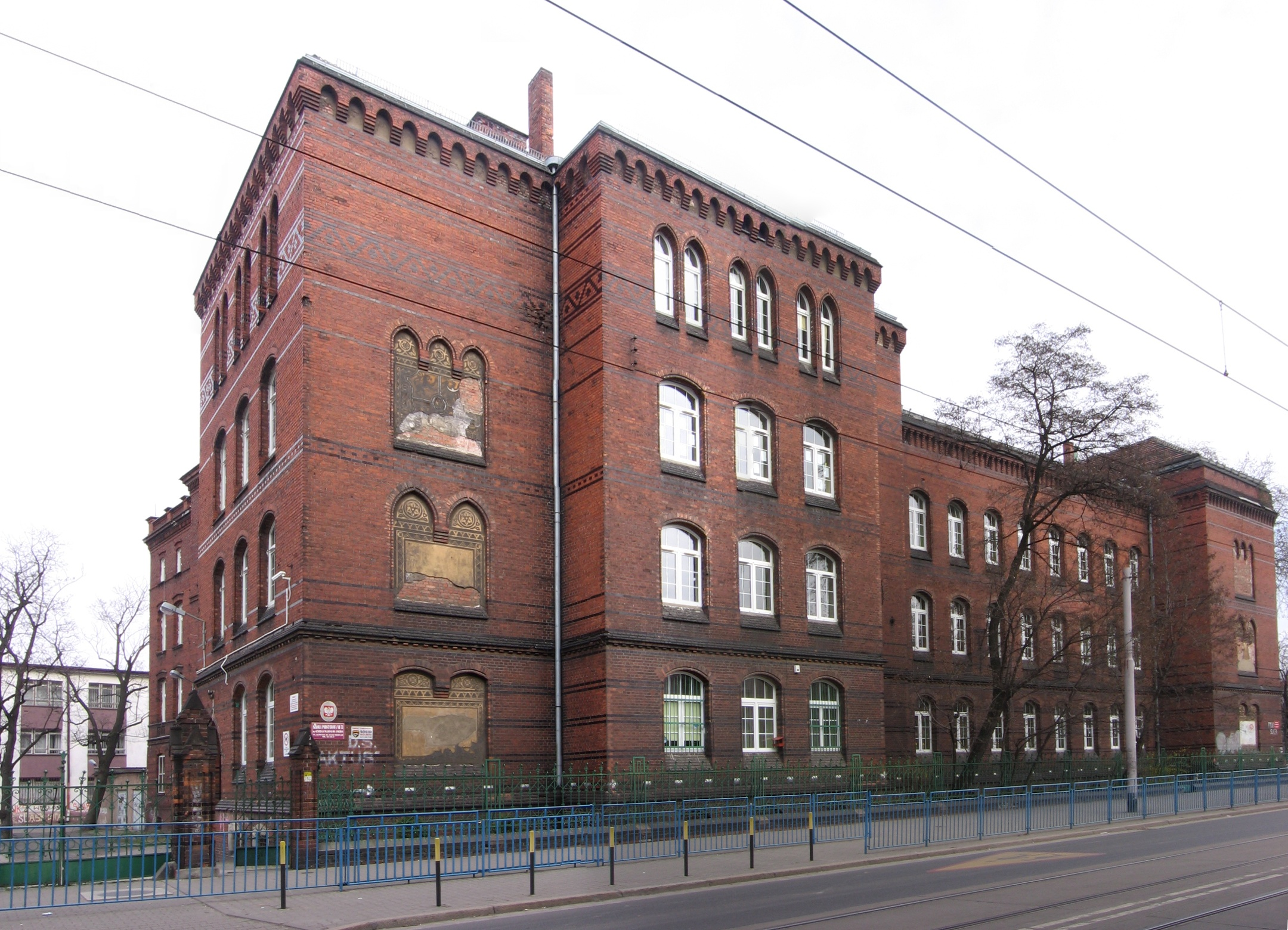 Richard Plüddemann, Elementary School at the Gliniana Street in Wroclaw, 1888. In the mid-background a part of an older building by C. J. Ch. Zimmermann from 1870; in the far-background on the left a 1960s building.